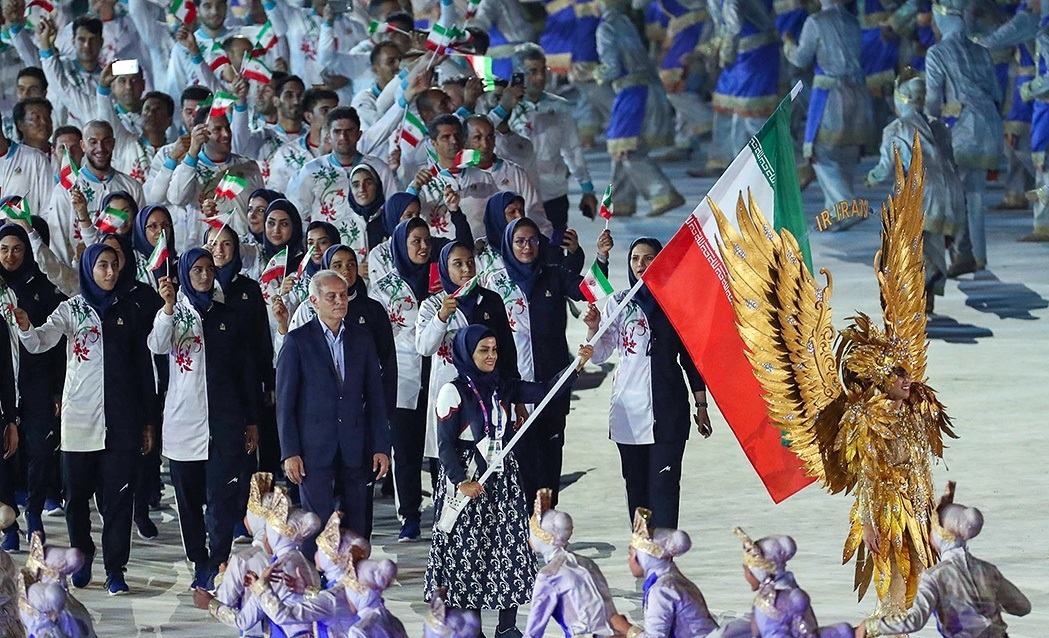 2018 Asian Games opening ceremony